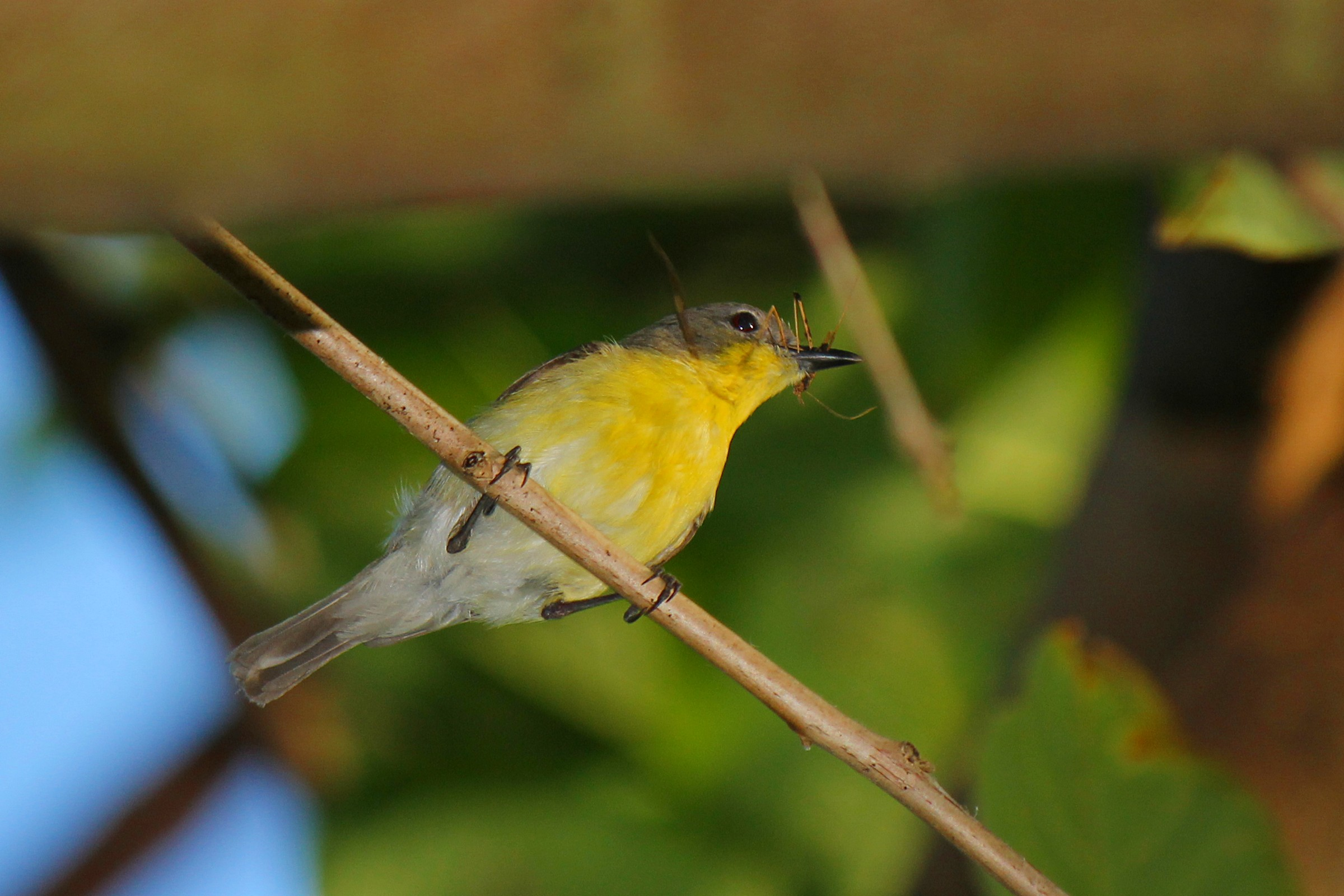 Golden-bellied Gerygone